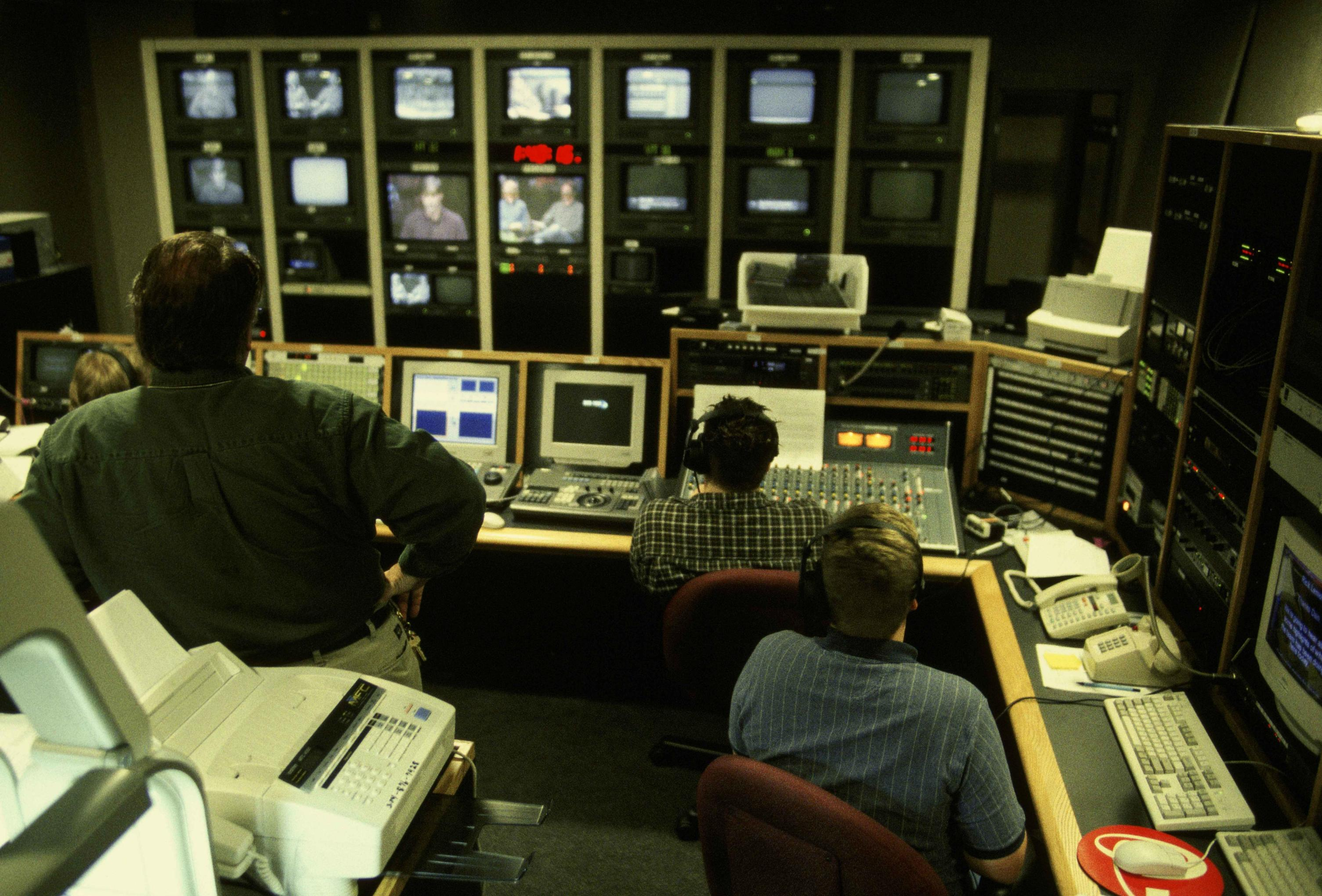 Image title: Video production workers in studio studying bank of monitors showing camera views Image from Public domain images website